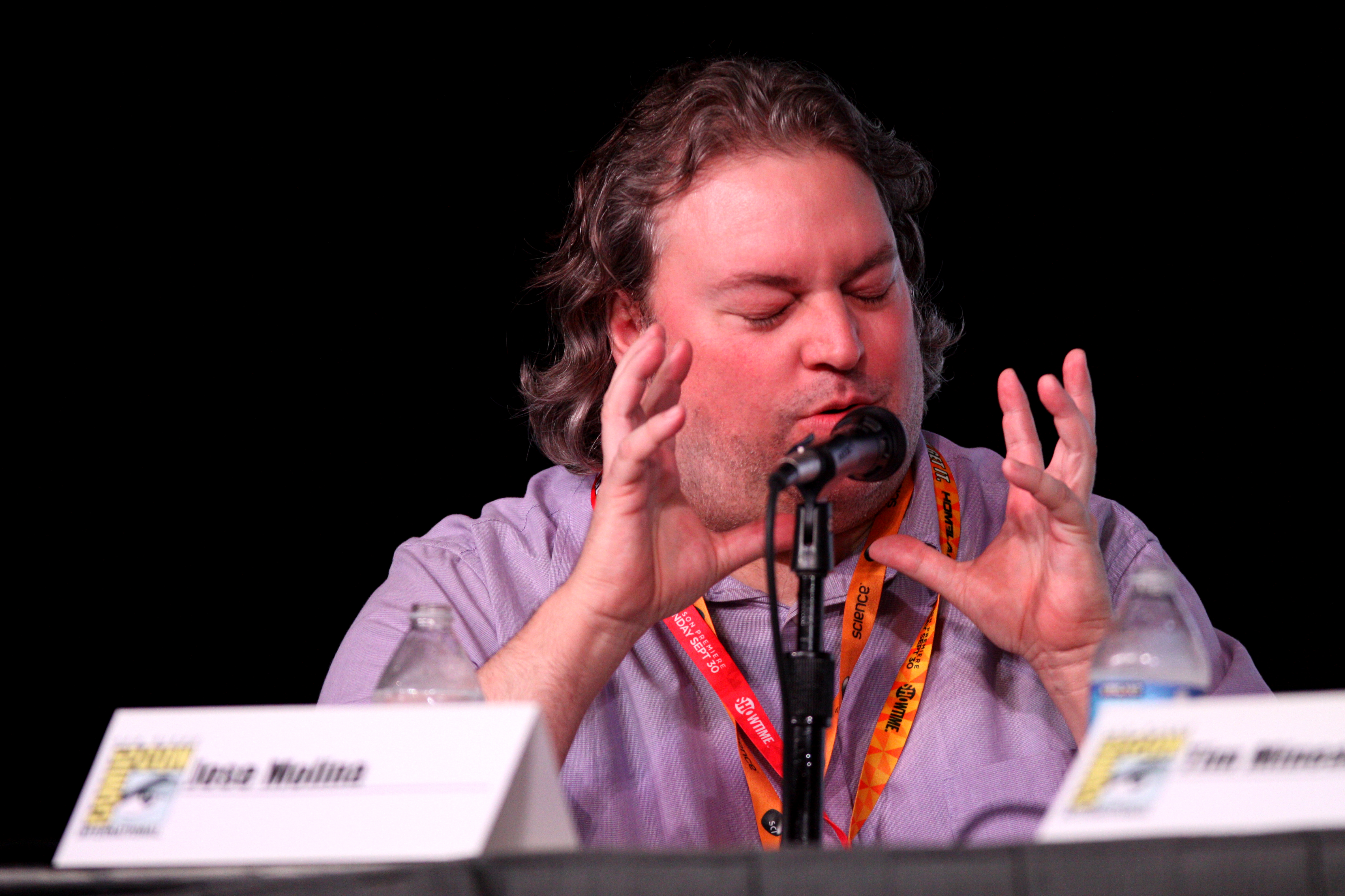 Jose Molina speaking at the 2012 San Diego Comic-Con International in San Diego, California.